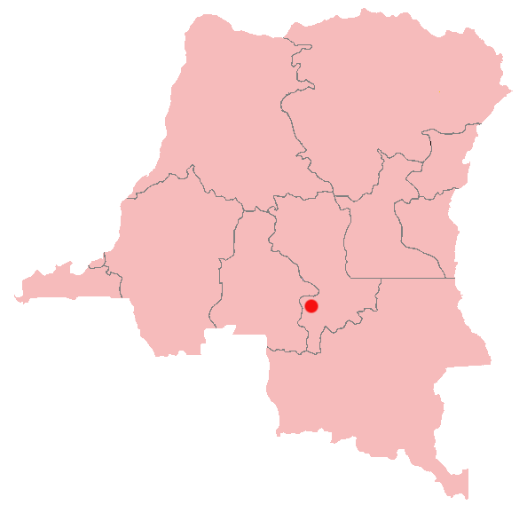 Mbuji-Mayi, Democratic Republic of the Congo Location Map; created with the GIMP. Made by User:Acntx.